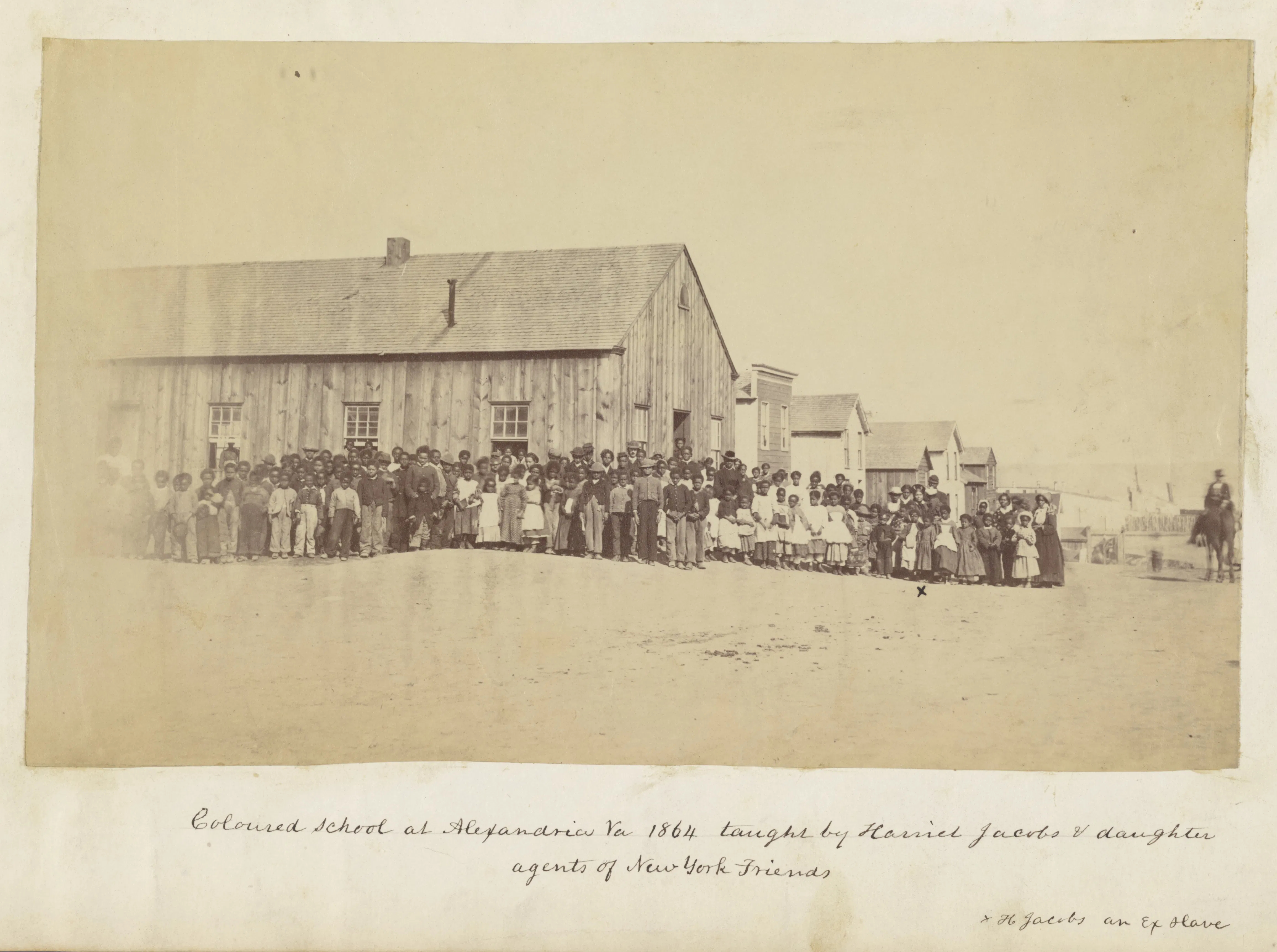 Photograph of the Jacobs Free School, which offered tuition-free schooling to African-American children. Founded by Harriet Jacobs, the school was unique in being both free to use, and run by African-Americans (the head of the school was Harriet's daughter, Louisa Matilda Jacobs, assisted by another young African-American woman) instead of being led by white abolitionists. Harriet Jacobs is indicated with a small X beneath her. This photograph was distributed to Northern abolitionists who had helped fund the school.